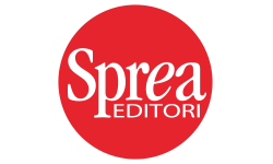 Logo Sprea Editori